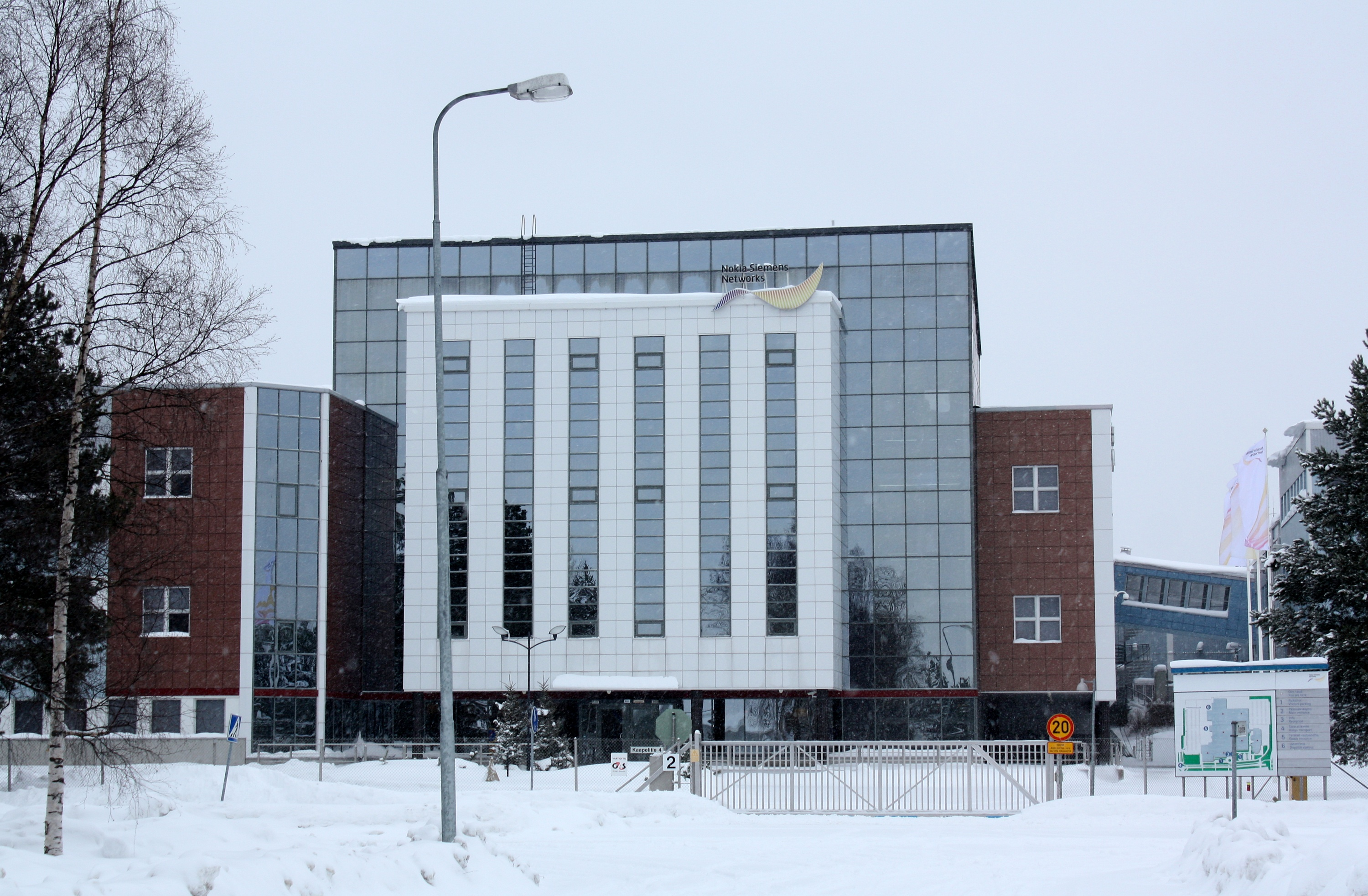 Nokia Siemens Networks office building in Ruskonselkä industrial area in Oulu, Finland.